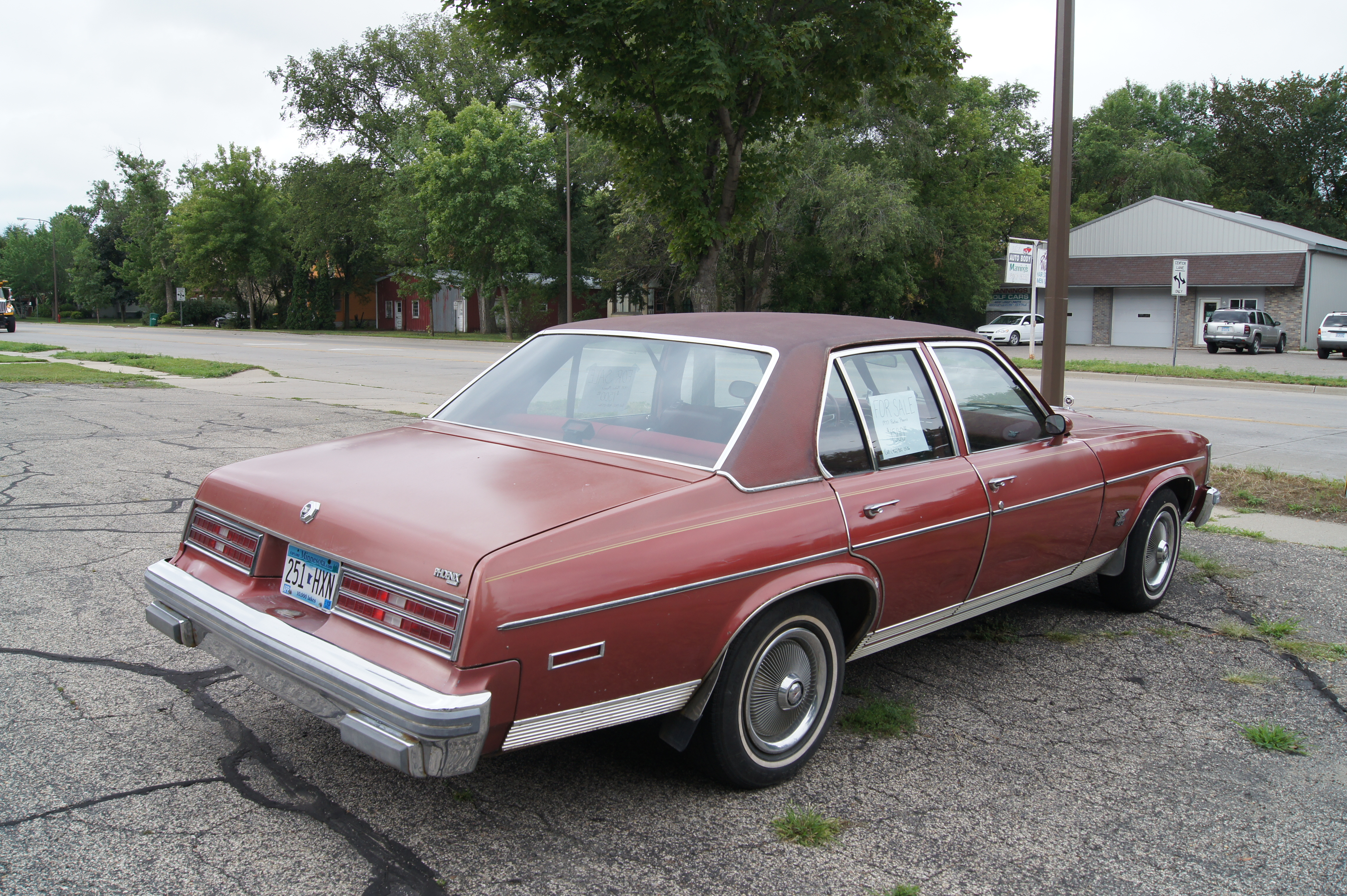 Trip to Cabin July 2012